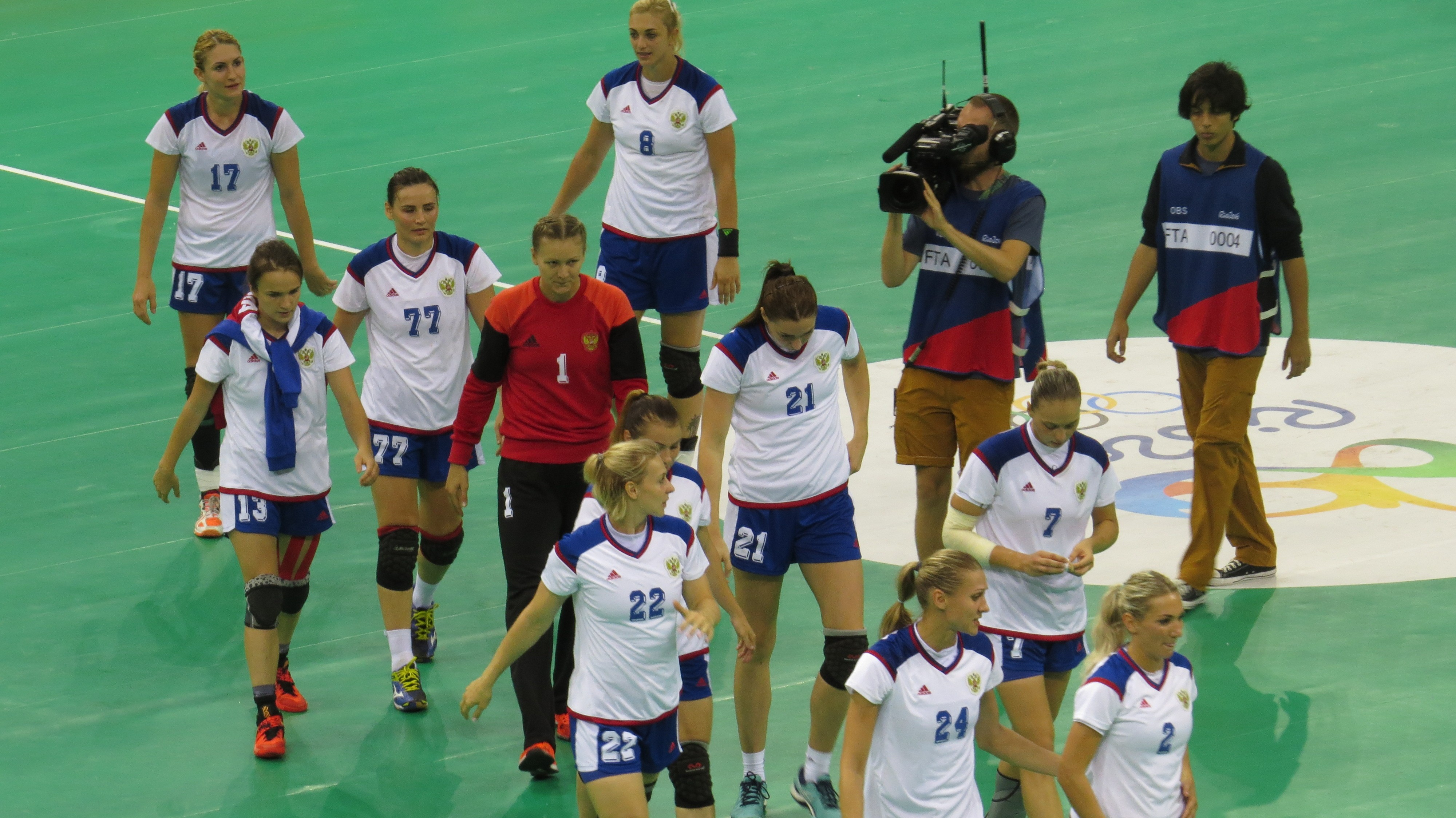 Rio 2016. sx 267. Russia women's national handball team during group B match against France at the 2016 Summer Olympics on August 8.